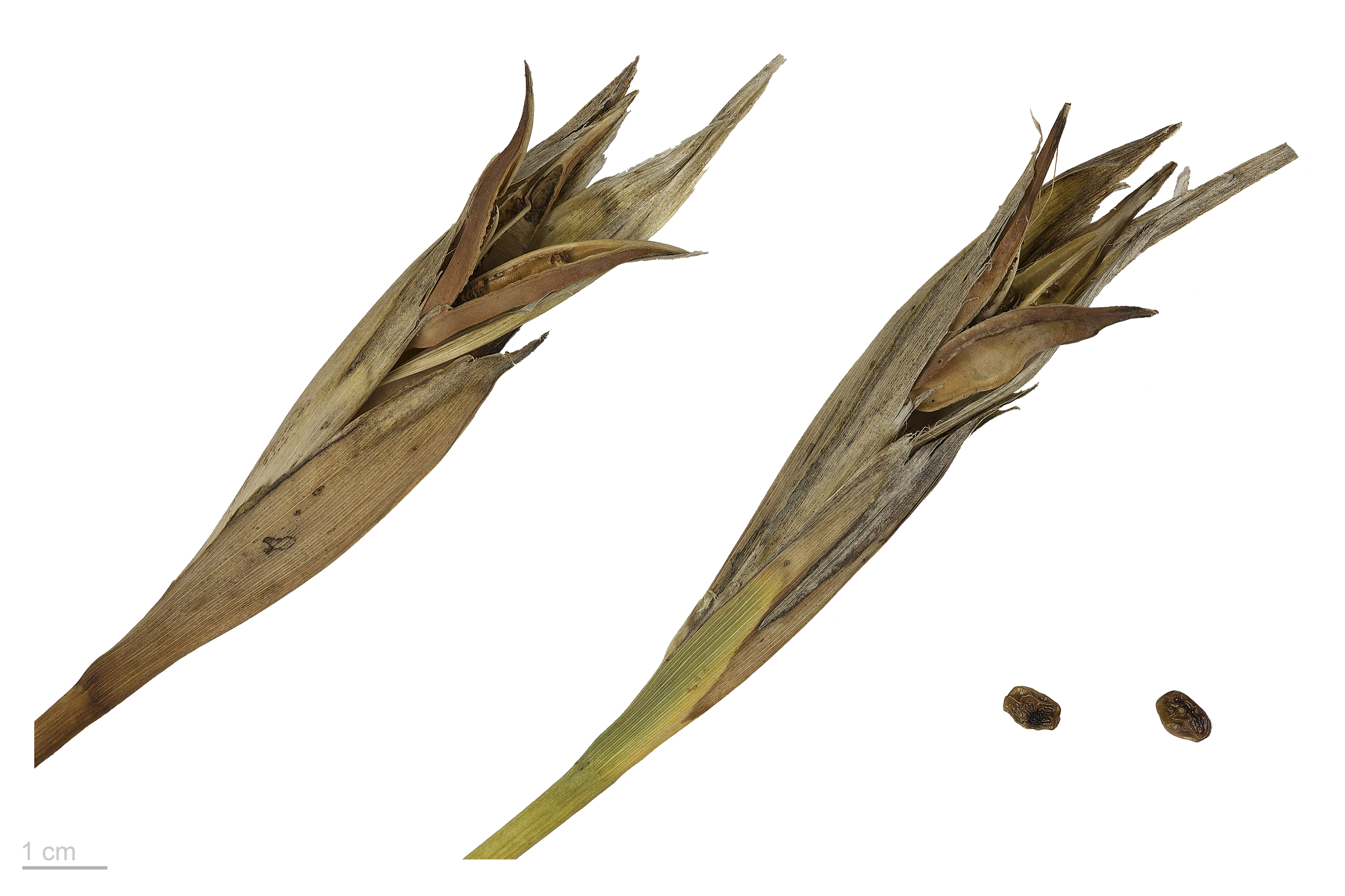 Iris graminea, , seeds